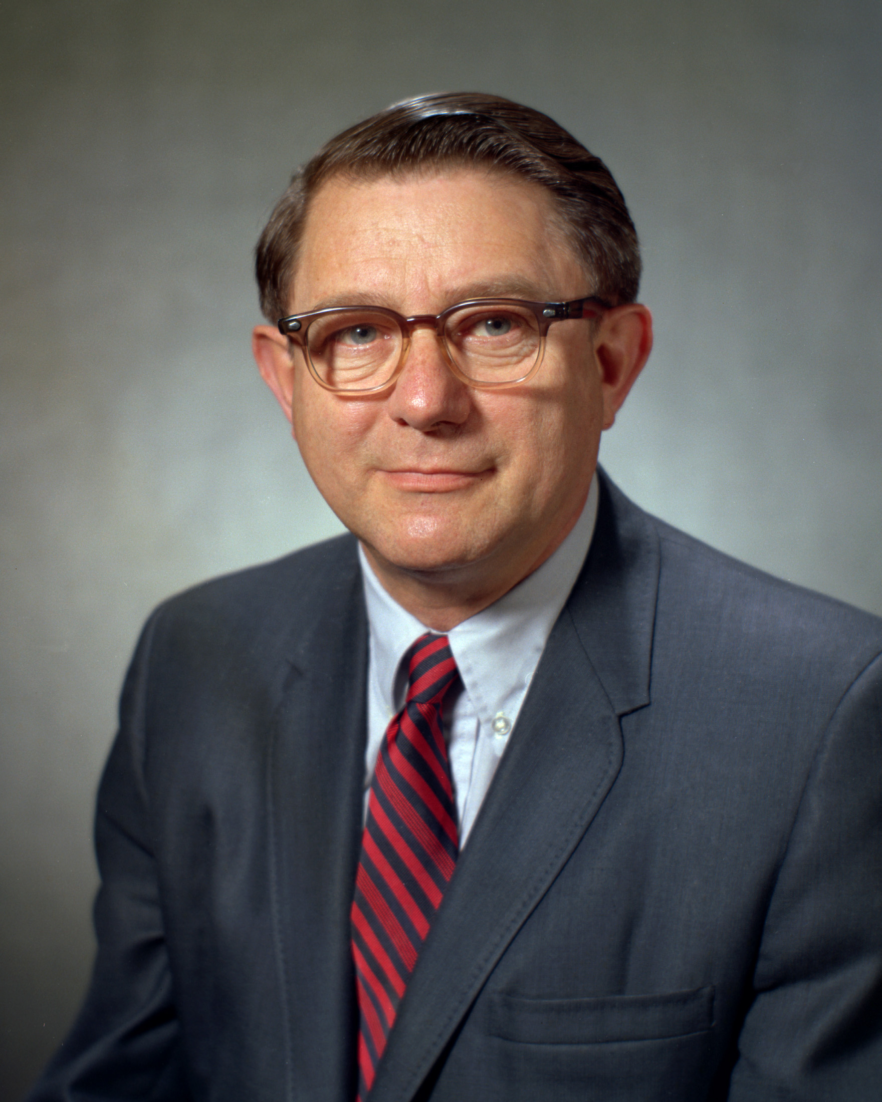 Abe Silverstein